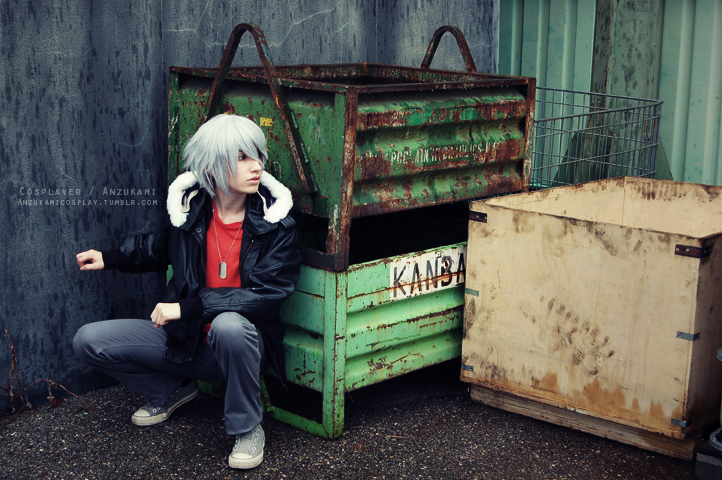 Cosplayer : Anzukami Character : Akira (Togainu No Chi) Place : Saint-Étienne, France